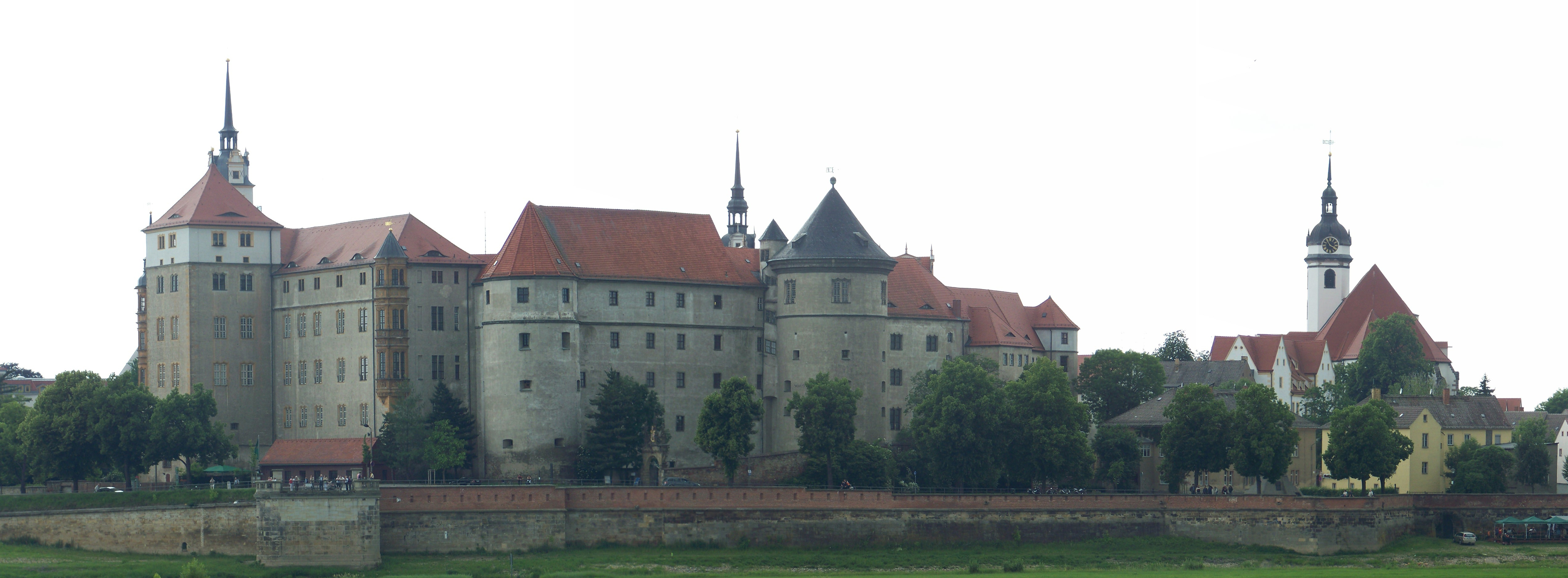 Hartenfels Castle in Torgau/Saxony, seen from east